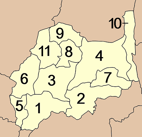 Map of the province Lopburi with the districts (Amphoe) numbered. Mueang Lopburi Phattana Nikhom Khok Samrong Chai Badan Tha Wung Ban Mi Tha Luang Sa Bot Khok Charoen Lam Sonthi Nong Muang